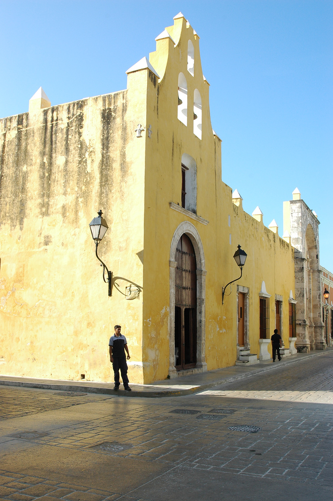 Church in historic Barrio de San Francisco, Old town San Francisco de Campeche (UNESCO), in Campeche state, southeastern Mexico.